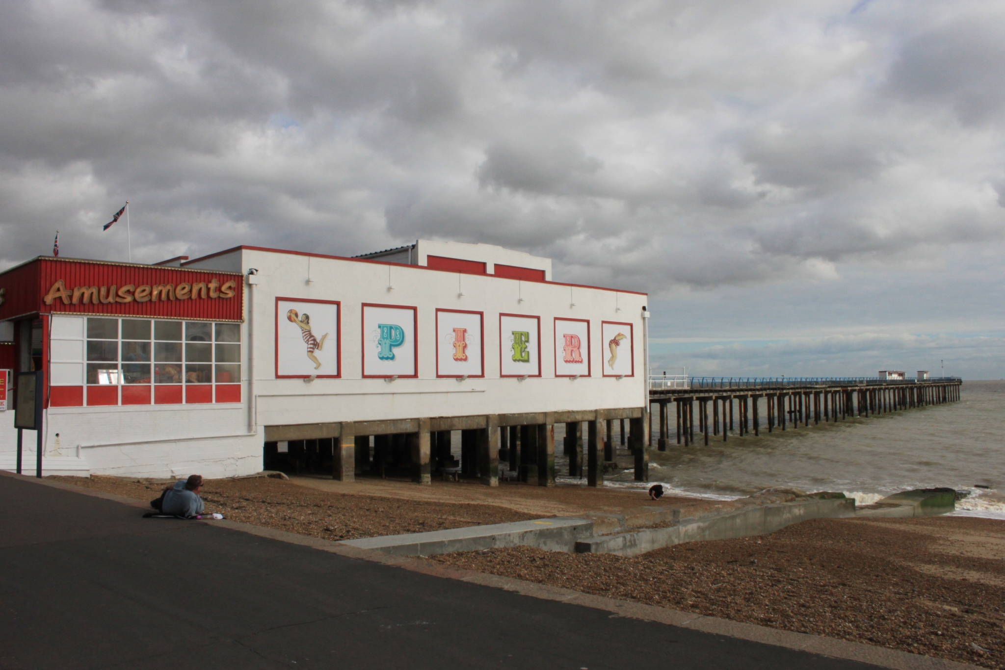 The pier at Felixstowe, Suffolk.